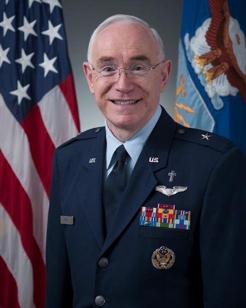 BGEN Bobby V. Page, USAF